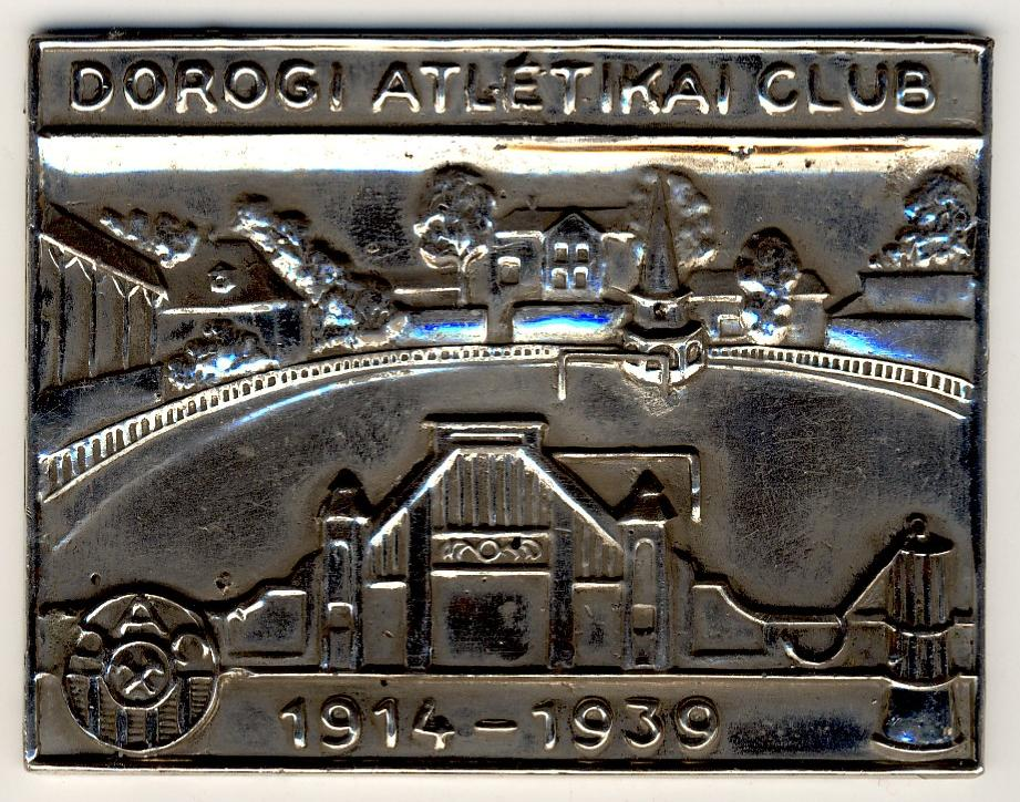 The 25th anniversary recolection of AC Dorog